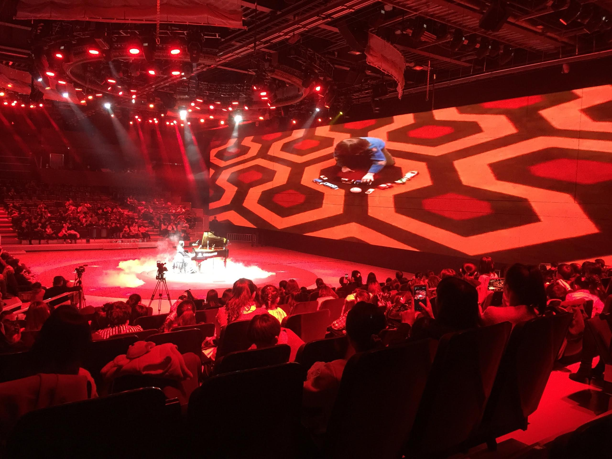 Megumi Masaki performing Danny's Etudes from Nicole Lizée's Kubrick Etudes, Urumqi, China. 15 Oct 2016